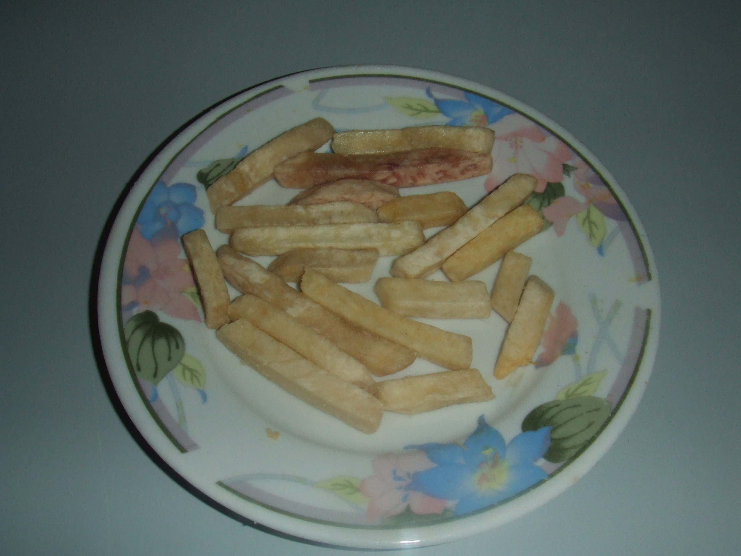 Taro chips, purchased at a Chinese supermarket on the West-Kruiskade in Rotterdam.